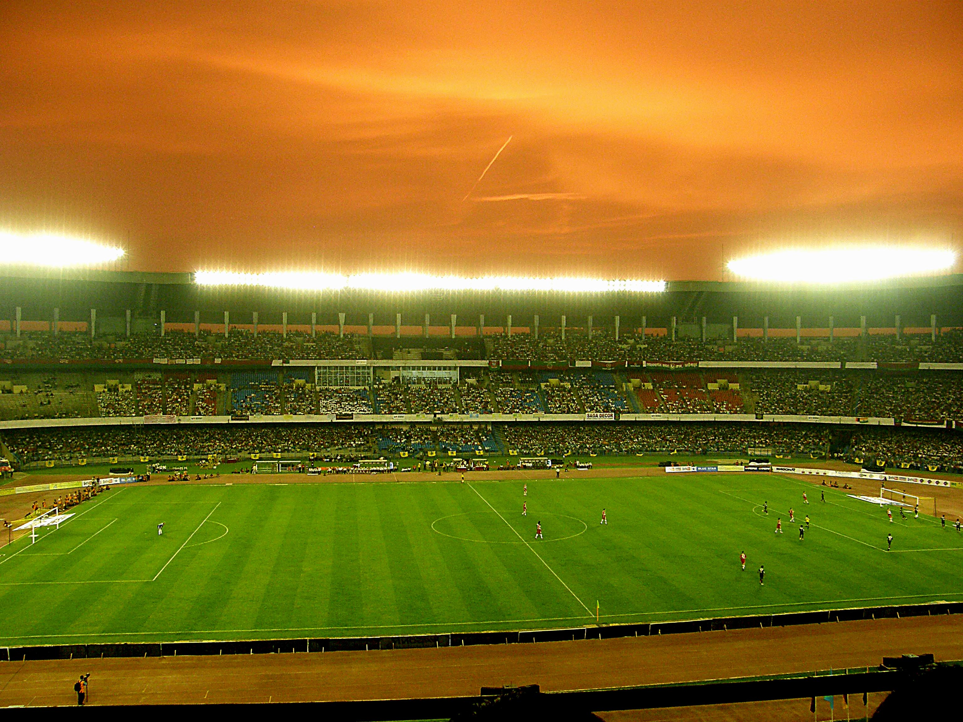 Picture of Salt Lake Stadium - Yuva Bharati Krirangan , Kolkata ( Calcutta ). Picture was taken on afternoon of 27th May, 2008. The Football Match was between Bayern Munich vs. Mohun Bagan. It is known as the farewell match of German Goal Keeper Oliver Kahn